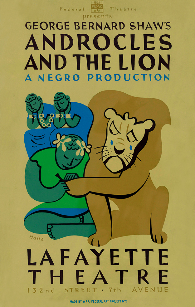 Silkscreen poster for Androcles and the Lion, presented by the Federal Theatre Project December 16, 1938–March 1939 at the Lafayette Theatre